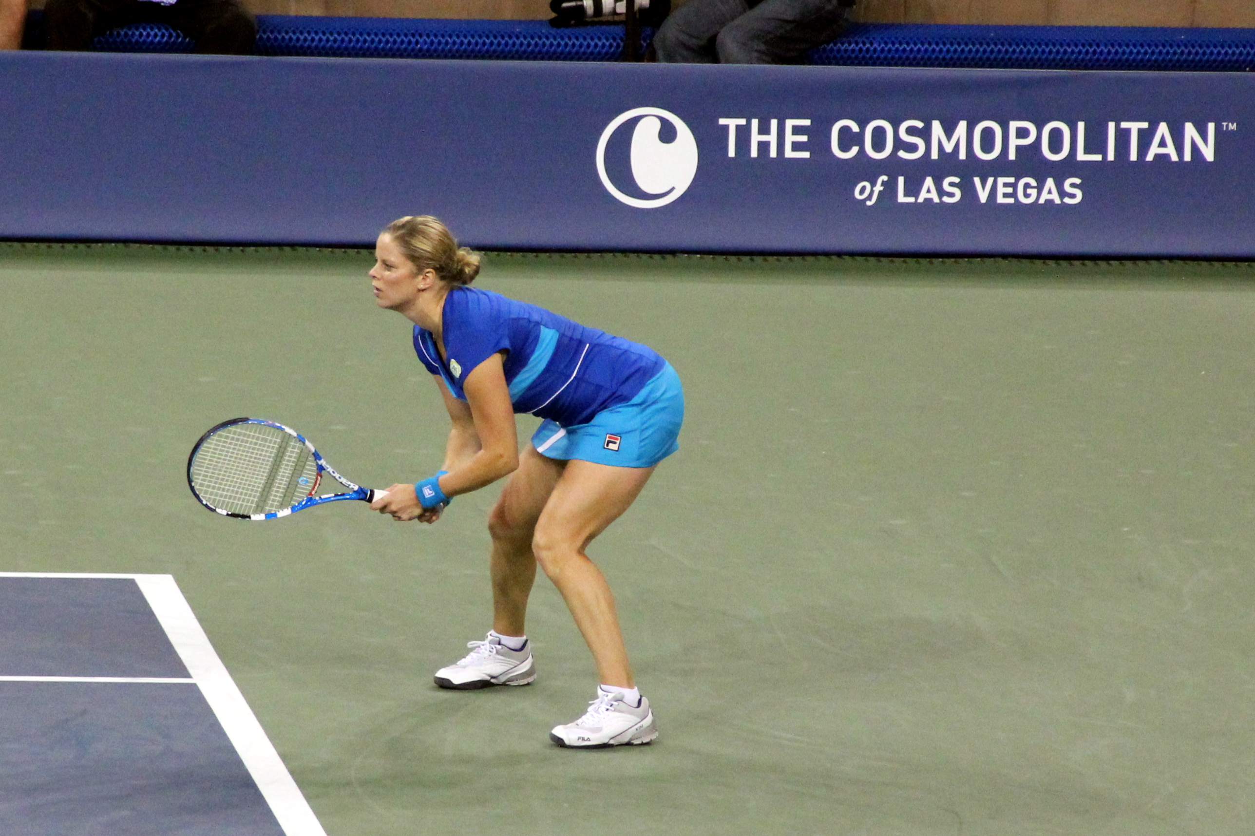 Clijsters vs. Stosur match on Tuesday night, 9/7 at the US Open.